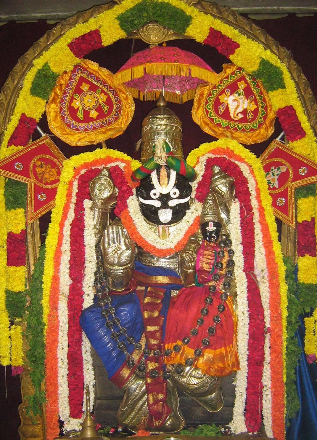 Narasimha Meru is a hill shaped Chakra which is specially made for Lord Narasimha Swamy. There is only one Narasimha Meru in this which is place at Sri Hari Vaikunta Kshetra Bangalore, Karnataka